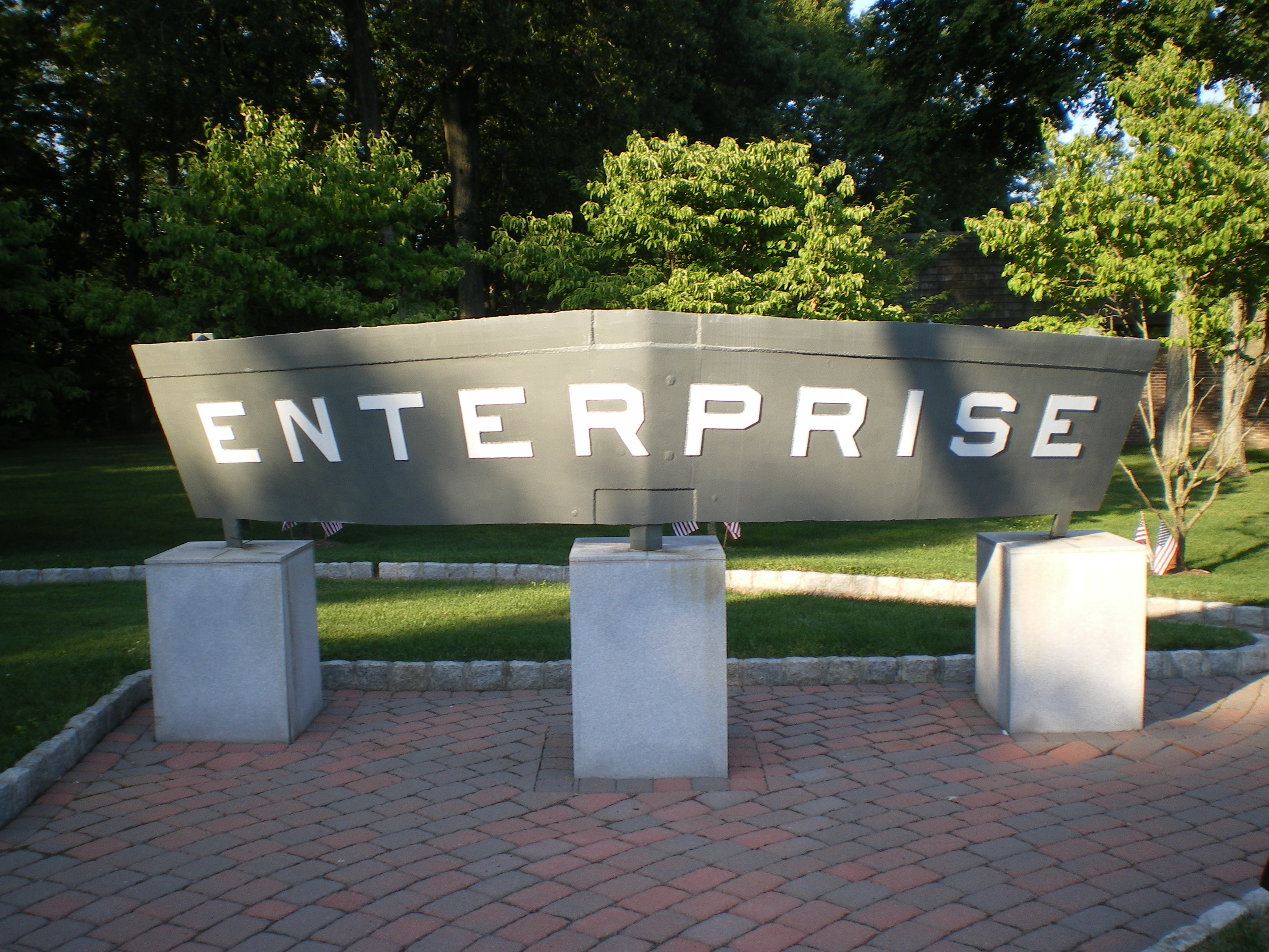 This is a current picture of the Stern Plate of the USS Enterprise CV-6